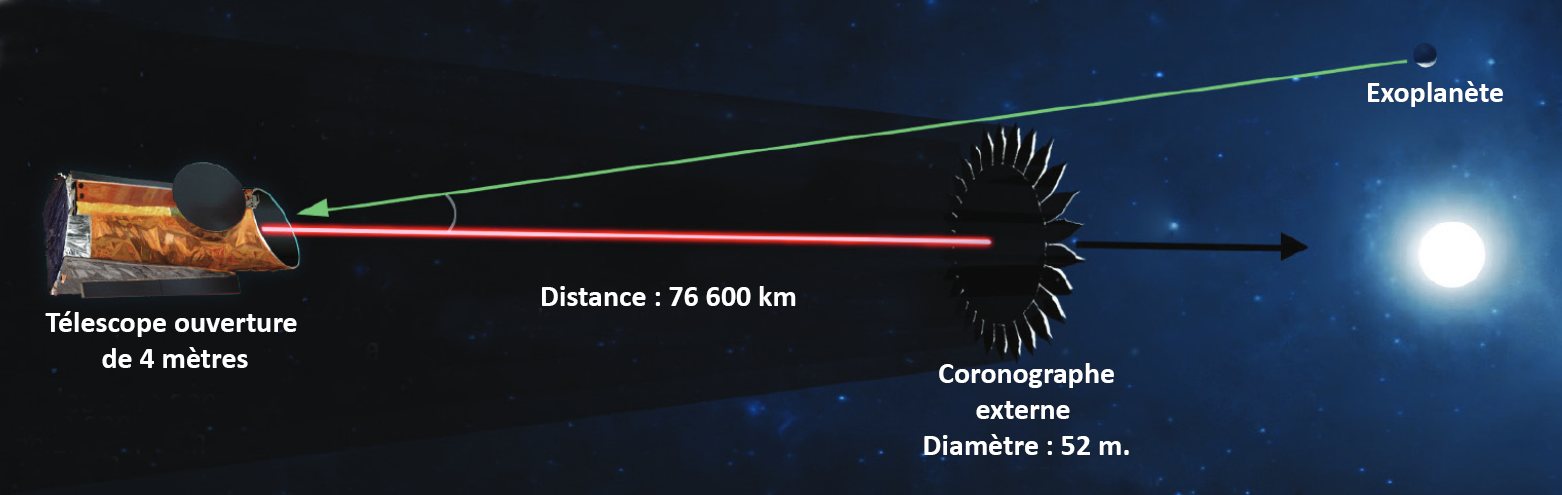 HabEx with starshade in space